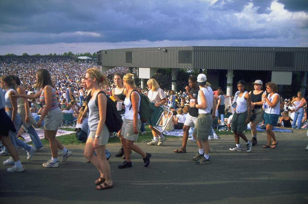 The Lilith Fair festival stage, at the Tweeter Center in Mansfield, MA, Sept. 22, 1998